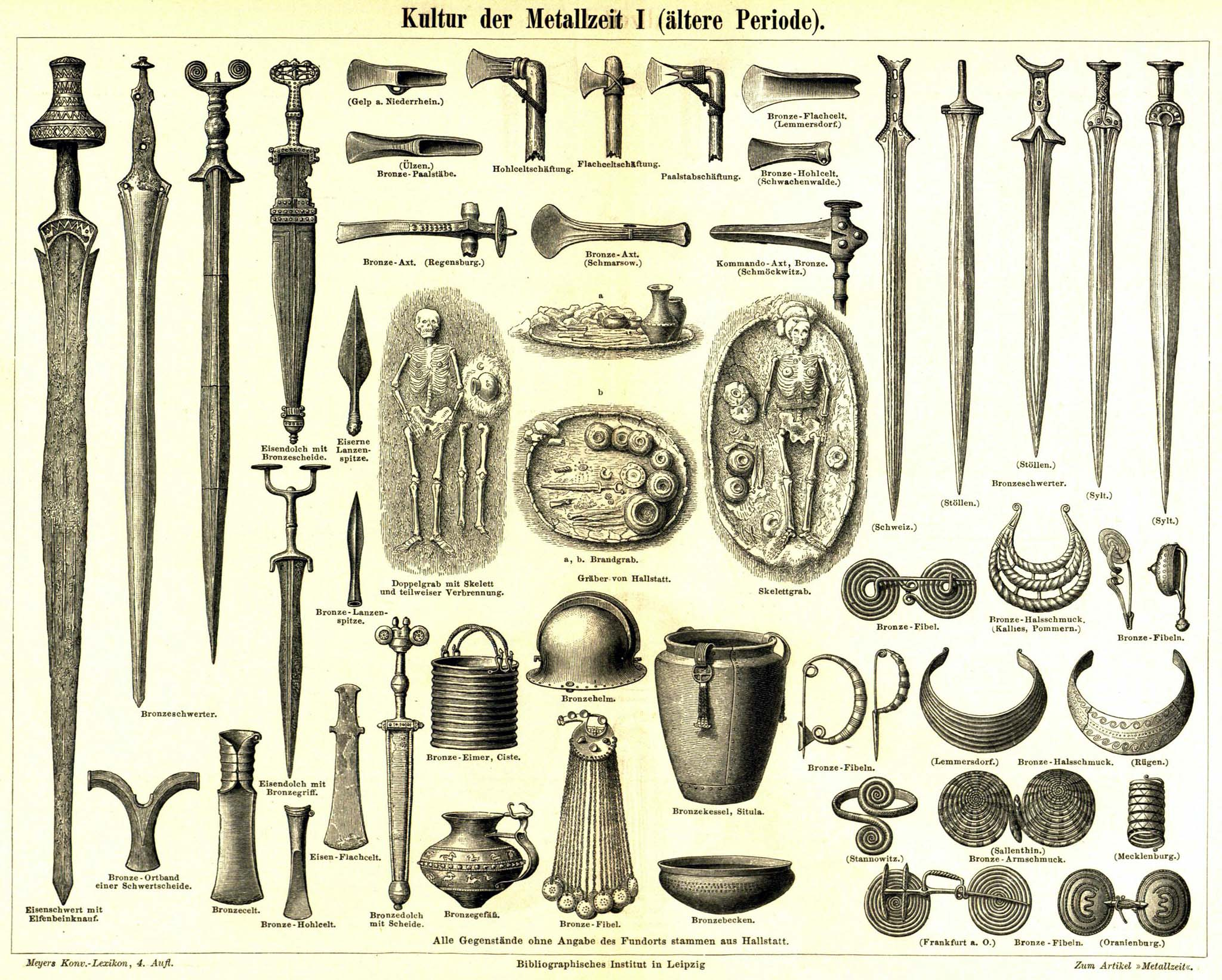 Culture of the metal age I.